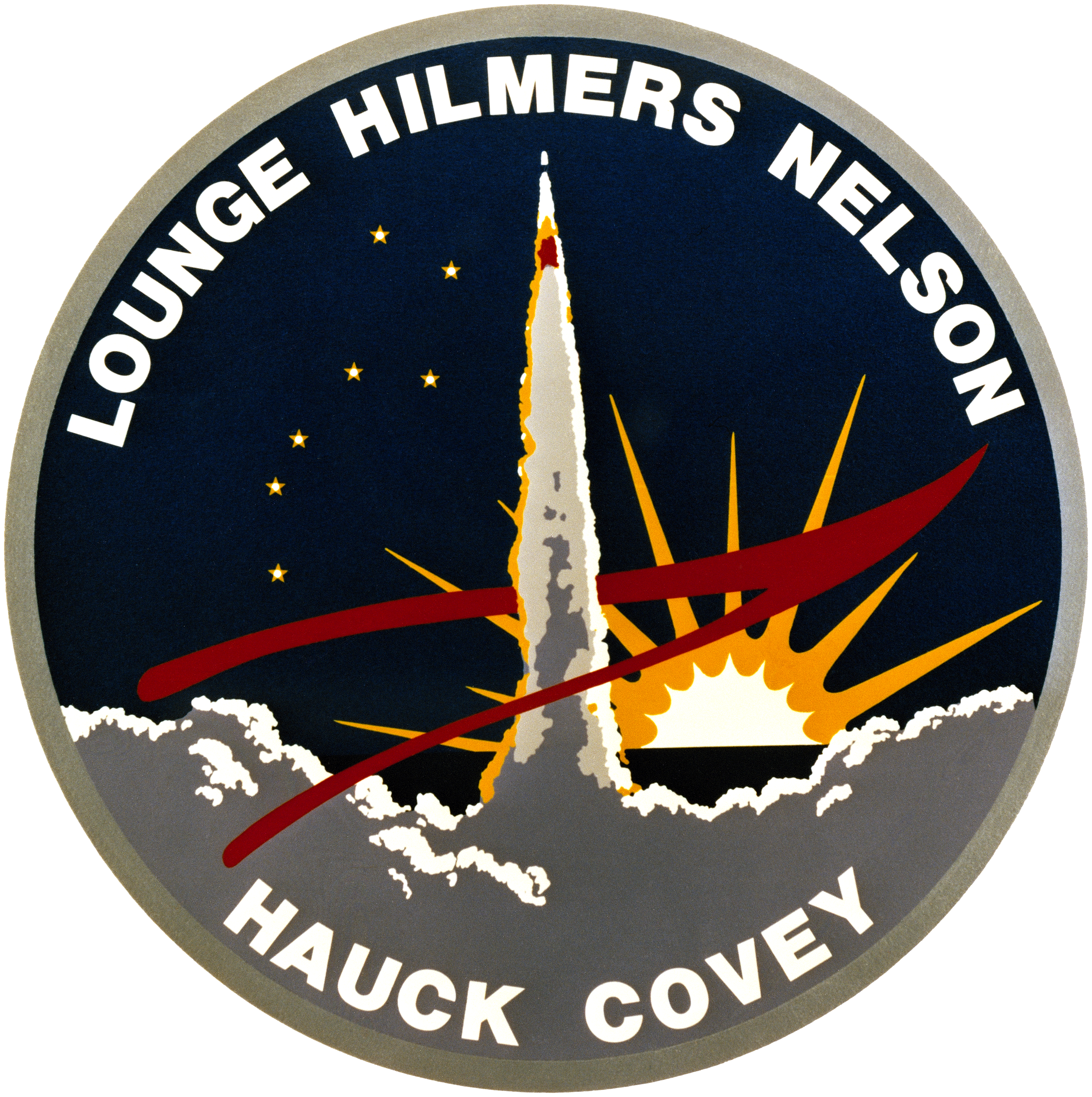 The predominant themes are: a new beginning (sunrise), a safe mission (stylized launch and plume), the building upon the traditional strengths of NASA (the red vector which symbolizes aeronautics on the original NASA insignia), and a remembrance of their seven colleagues who died aboard Challenger (the seven-starred Big Dipper). The patch was designed by artist Stephen R. Hustvedt of Annapolis, MD.